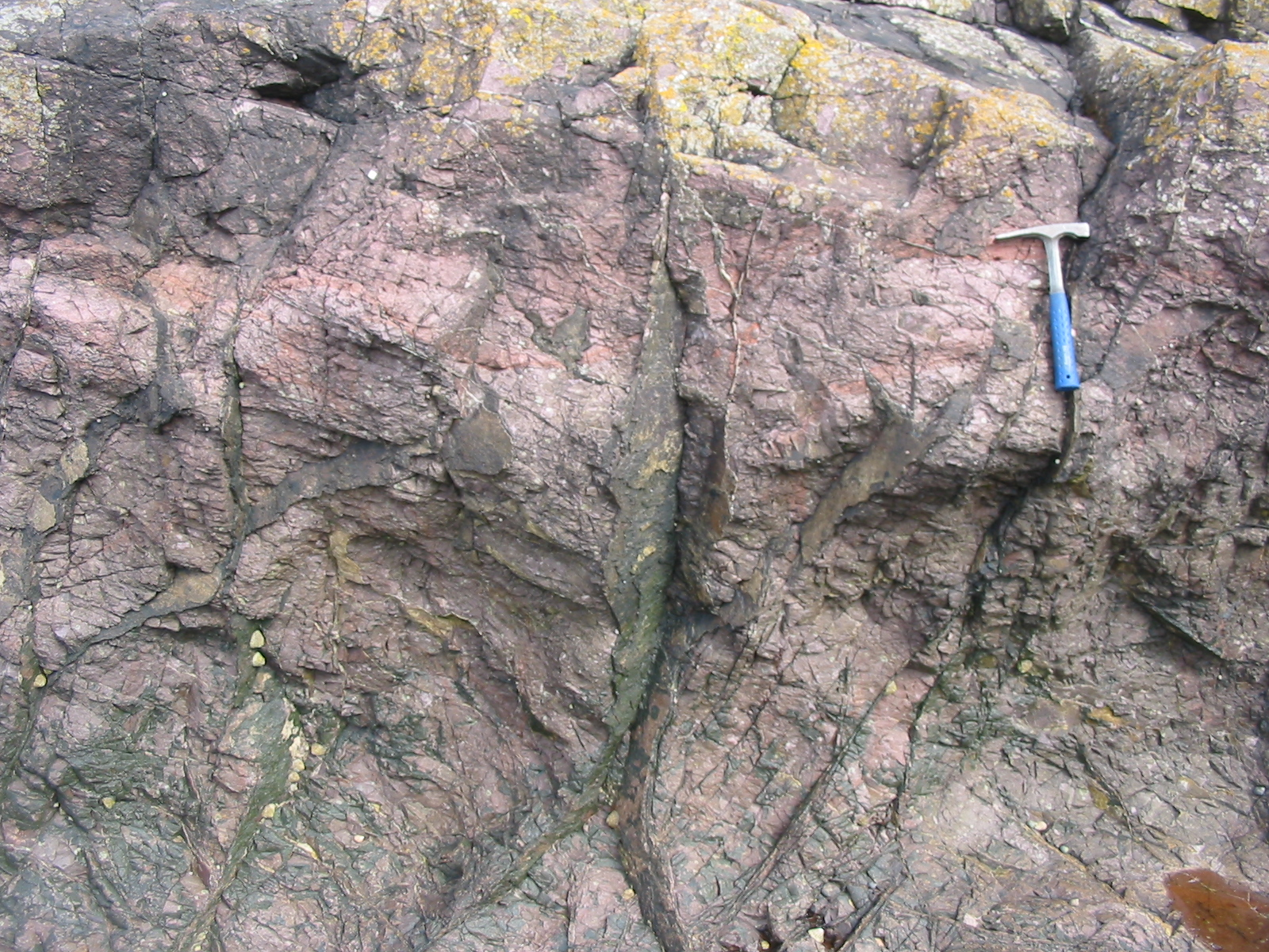 Andesite outcrop. Eastern coast of Scotland.